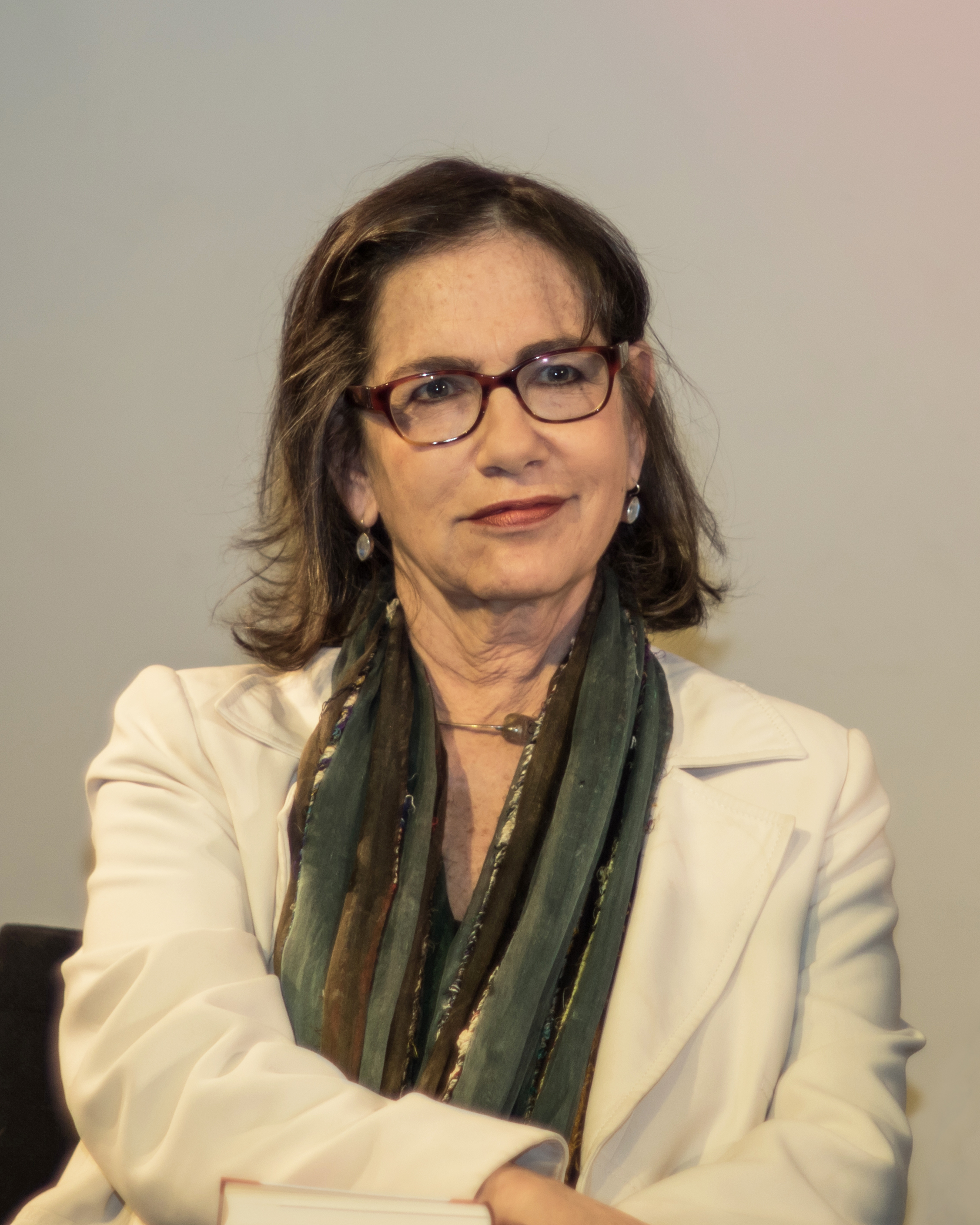 Photo of Susan Neiman, an American philosopher who lives in Germany